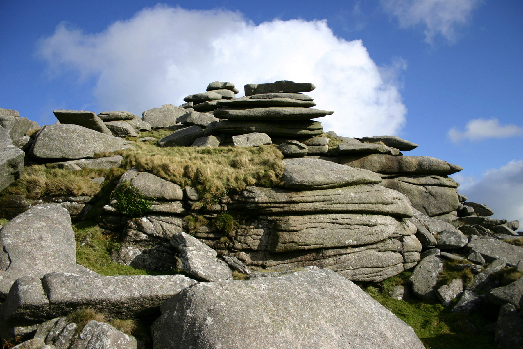 Rough Tor, a granite outcrop on Bodmin Moor, England. geotagged